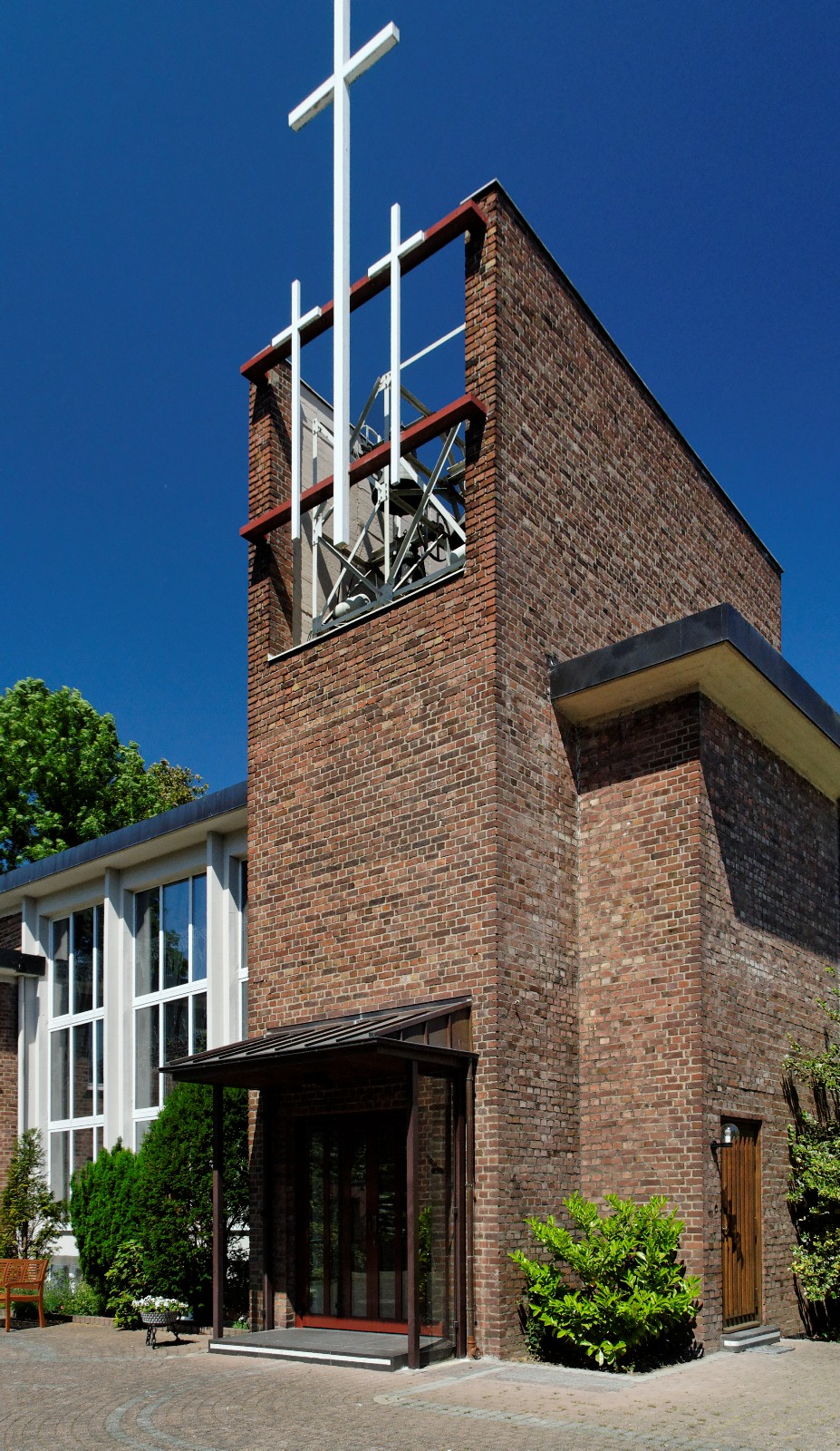 Redeemer Church in Düsseldorf-Stockum, Germany